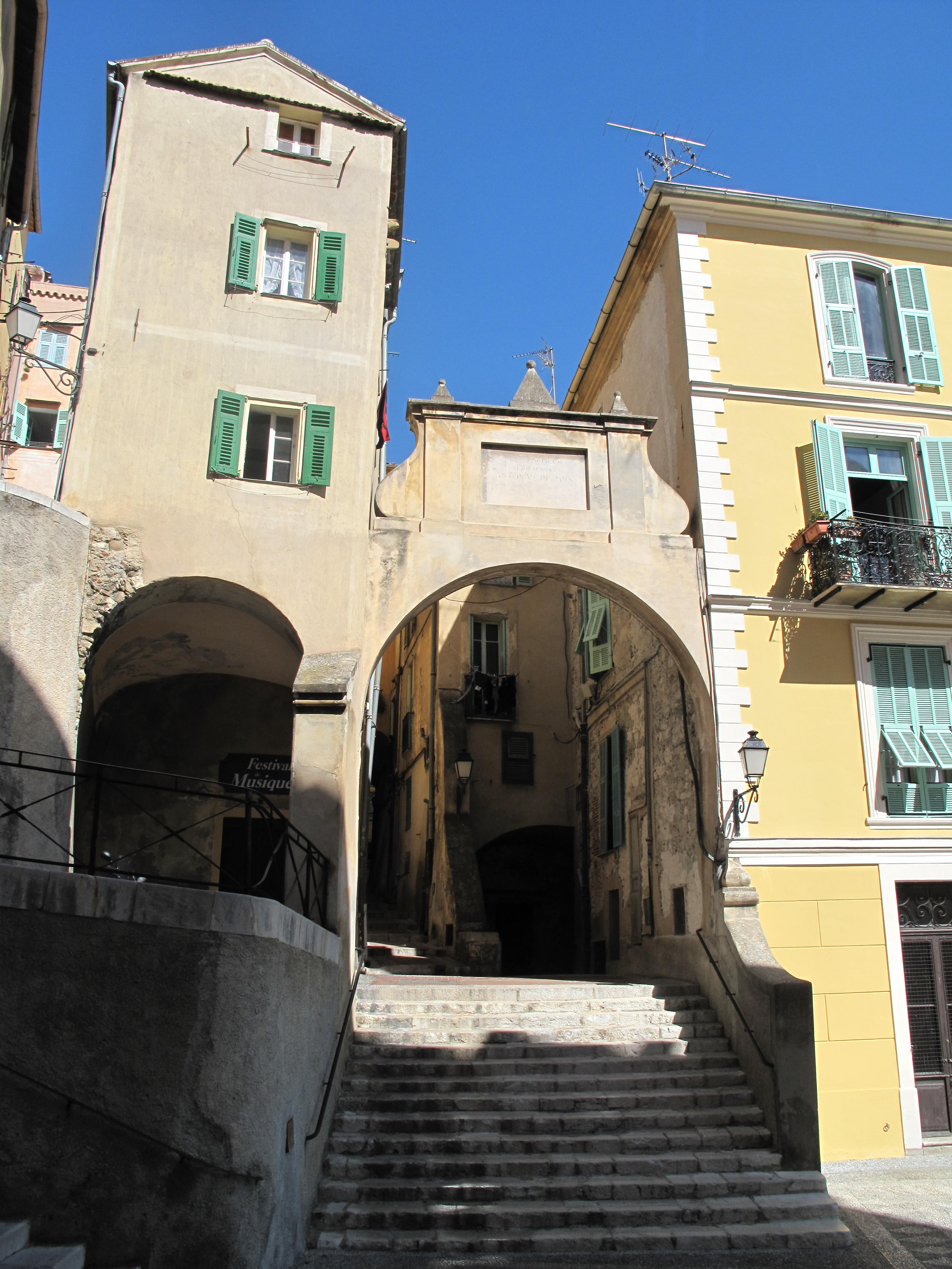 Entrance of the old town of Menton (Alpes-Maritimes, France), looking back the cathedral.